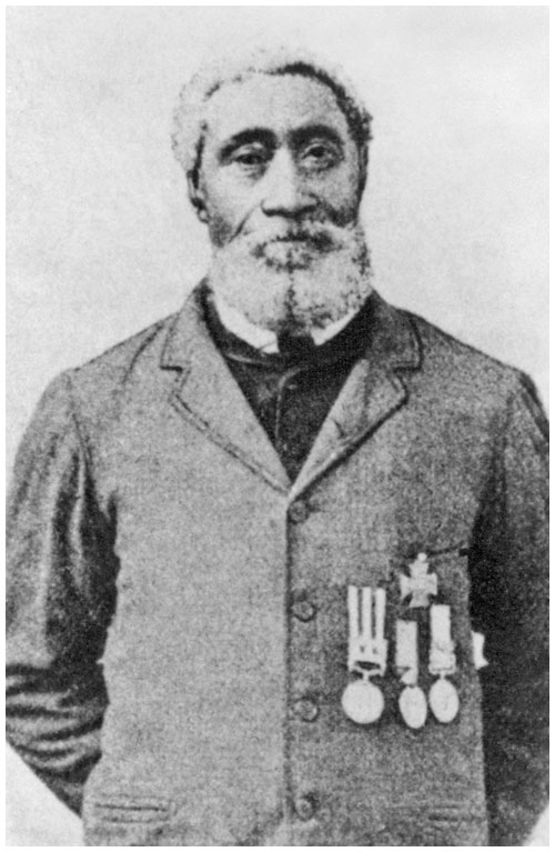 Photograph of William Hall (VC)